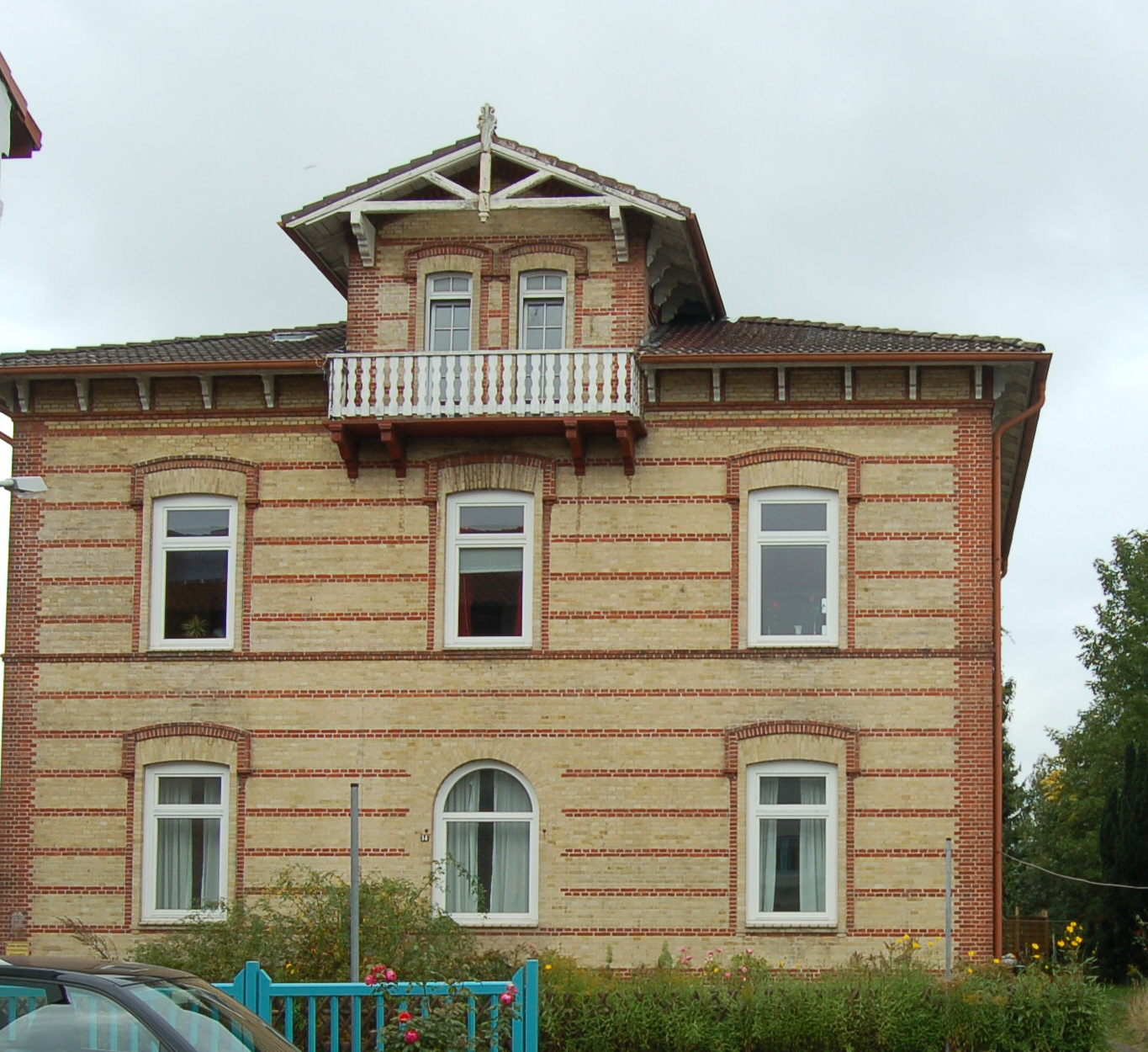 The birthplace of the brothers Michael Lienau (1816-1893) and Detlef Lienau (1818-1887). Michael Lienau is an honorary citizen of Uetersen and Detlef Lienau was an important architect in the Americas and builder of the castle Düneck in Moorrege